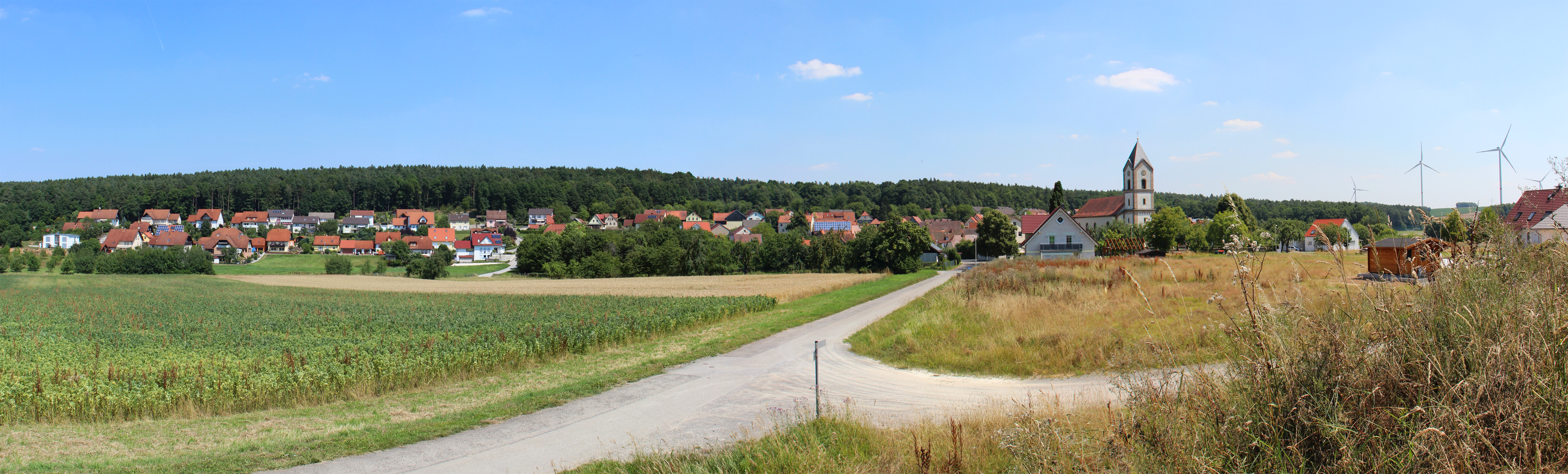 Panoramic picture of the district Windheim. Photographed from the west.